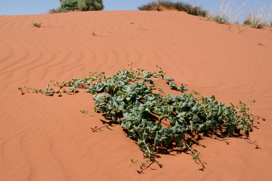 Maurandya wislizeni, dunes W of Bingaman